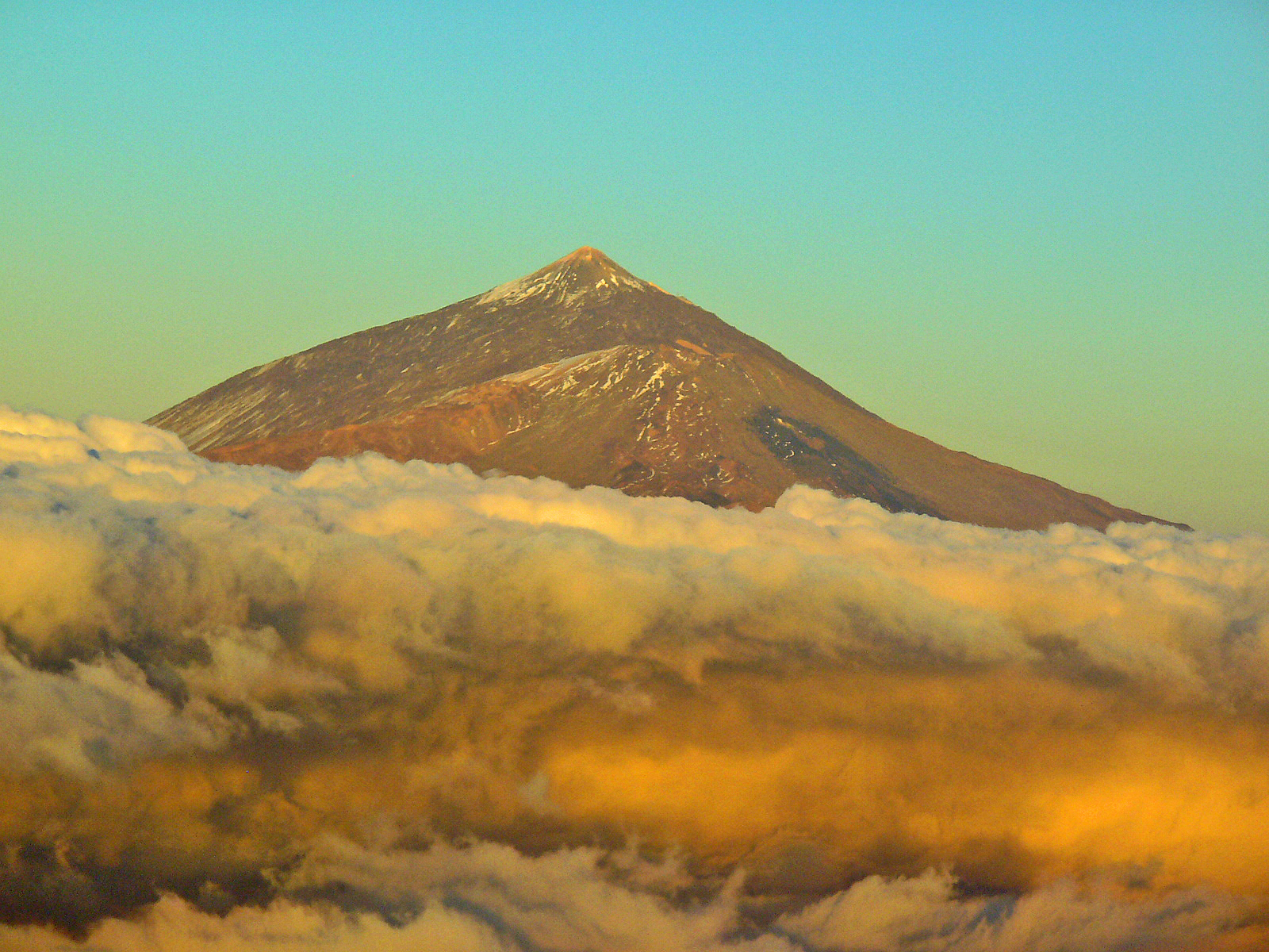 Teide, Tenerife, view from airplane